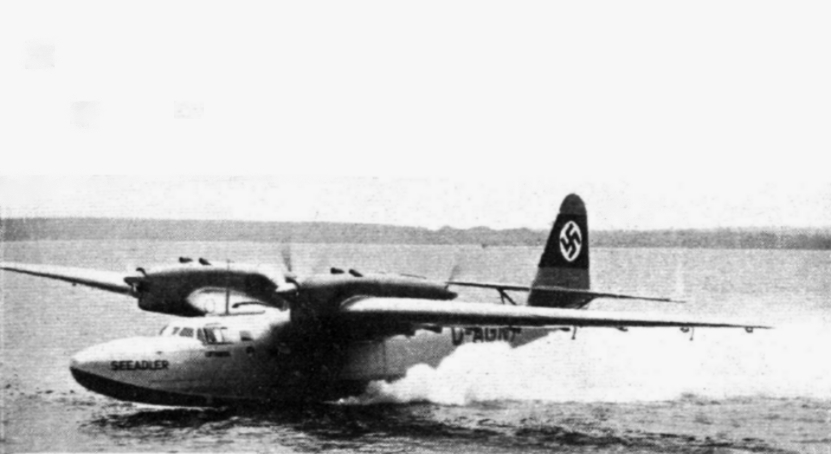 The Dornier Do 26A (V-1, D-AGNT "Seeadler") flying boat taking off.